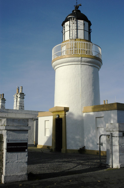 Cromarty Lighthouse